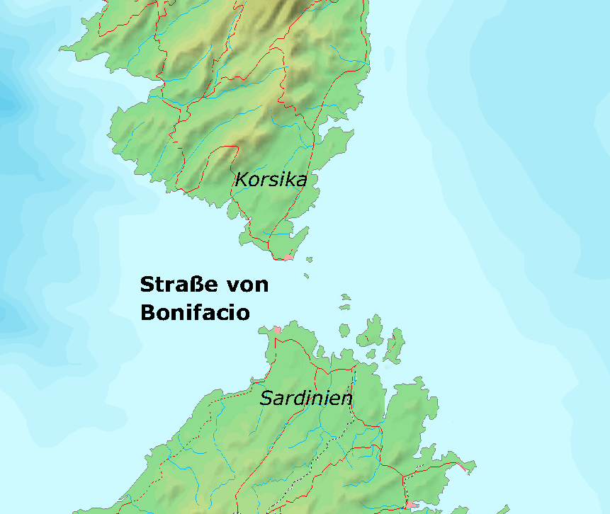 Strait of Bonifacio